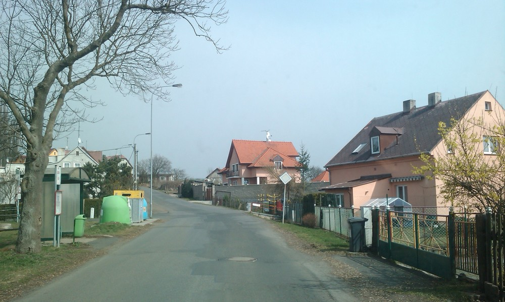 Village of Rosnice (Karlovy Vary), Czech Republic.